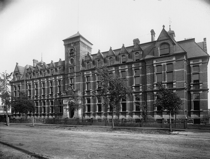 Intercolonial Railway's General offices, Moncton, New Brunswick, Canada, 1901. Source : McCord museum.